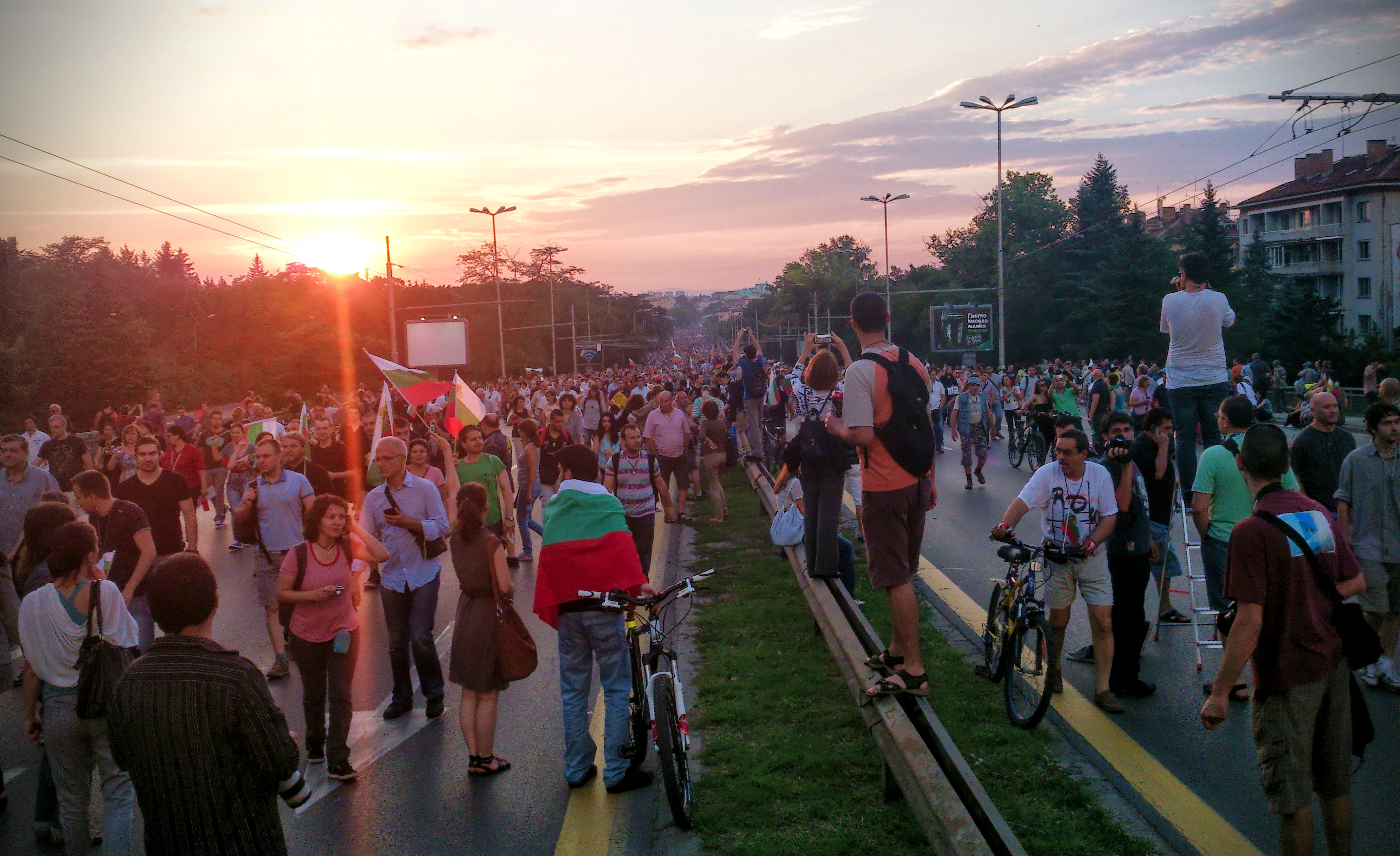 Protests against the Oresharski cabinet, Sofia, 8 July 2013